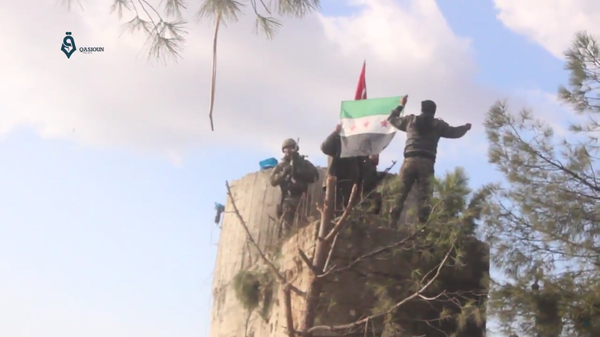 TFSA fighters on the top of Barsaya mountain, hoisting the Turkish and Syrian indepedence flag while shouting "Allāhu akbar".